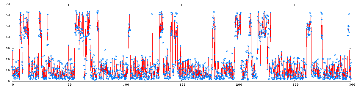 Stochastic resonance